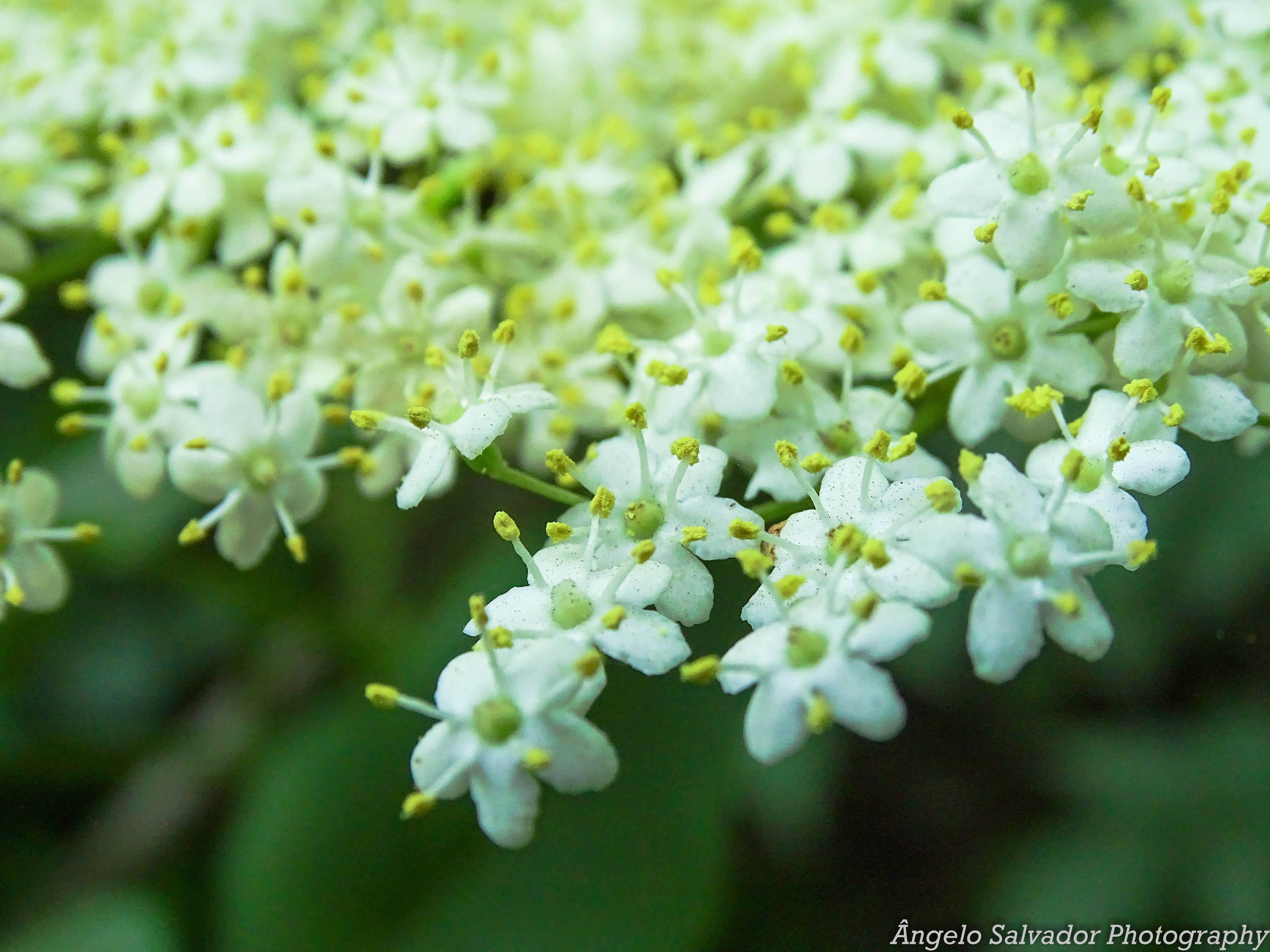 Prospestion of bioactive compounds from these beautiful elderflowers